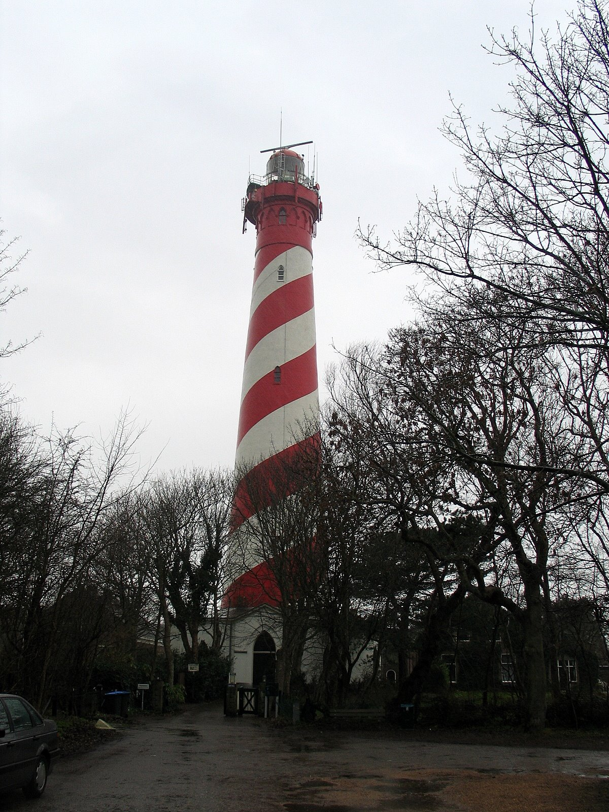 West Schouwen lighthouse (Haamstede)